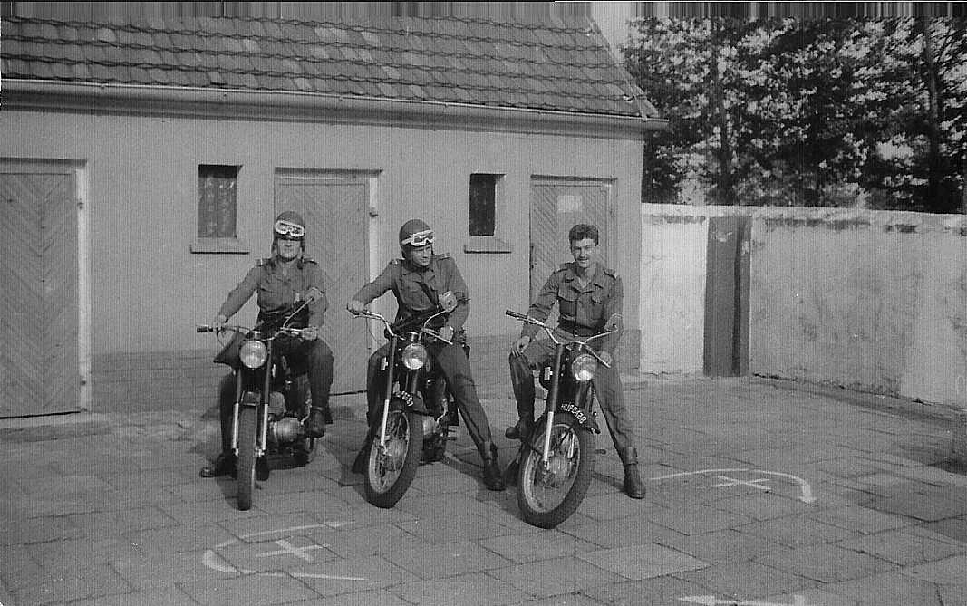 Border Protection Forces in Gierałcice